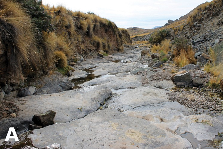 Habitat of T. ventriflavum at the type locality. Photograph by V. Vargas García.